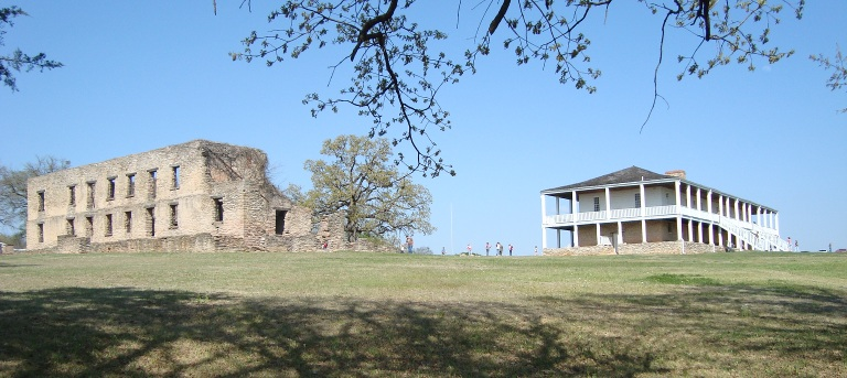 Both barracks at Fort Washita near Durant, Oklahoma, United States of America.